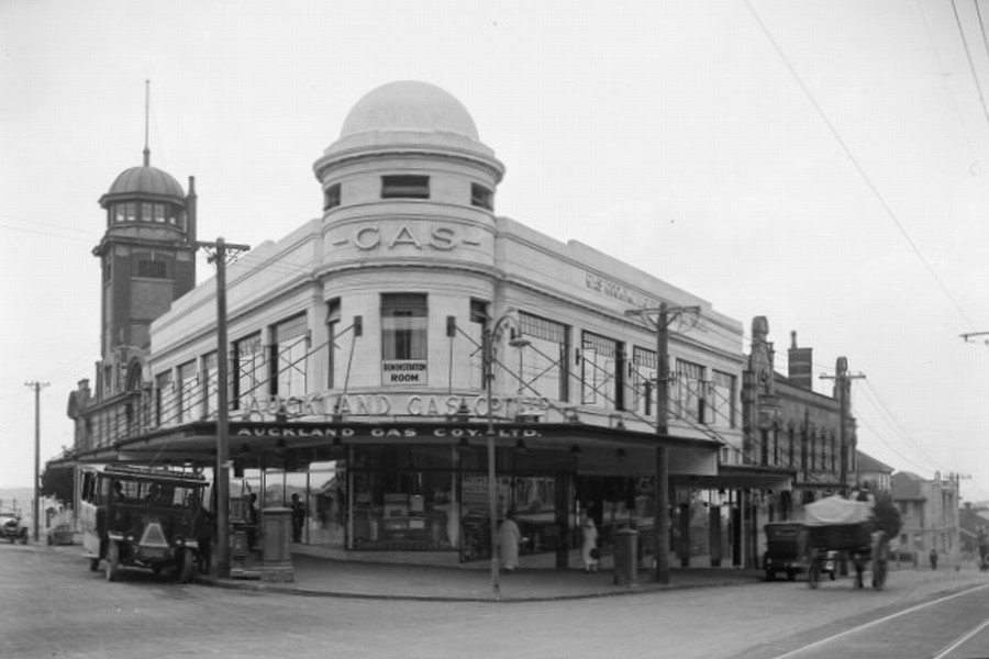 The Auckland Gas Company building at the corner of Beresford (?) and Pitt Street in Auckland City, New Zealand. Extended information on origin webpage reads: Auckland Gas Company Ltd, Auckland [ca 1920] / Reference number: 1/2-000386-G / 1 b&w original negative(s). Dry plate glass negative 4.5 x 6.5 inches. Horizontal image. / Part of Price, William Archer, d 1948 :Collection of post card negatives (PAColl-3057) / Scope and contents: View of the Auckland Gas Company Ltd premises and demonstration room (possibly located on the corner of Pitt Street and Beresford Street). The Auckland Fire Brigade Station is on the lefthand side. Passengers are boarding a bus at the intersection, near to a post box (destinations are Blockhouse Bay, Avondale & Pitt Street). Photograph taken by William A Price ca 1920s.